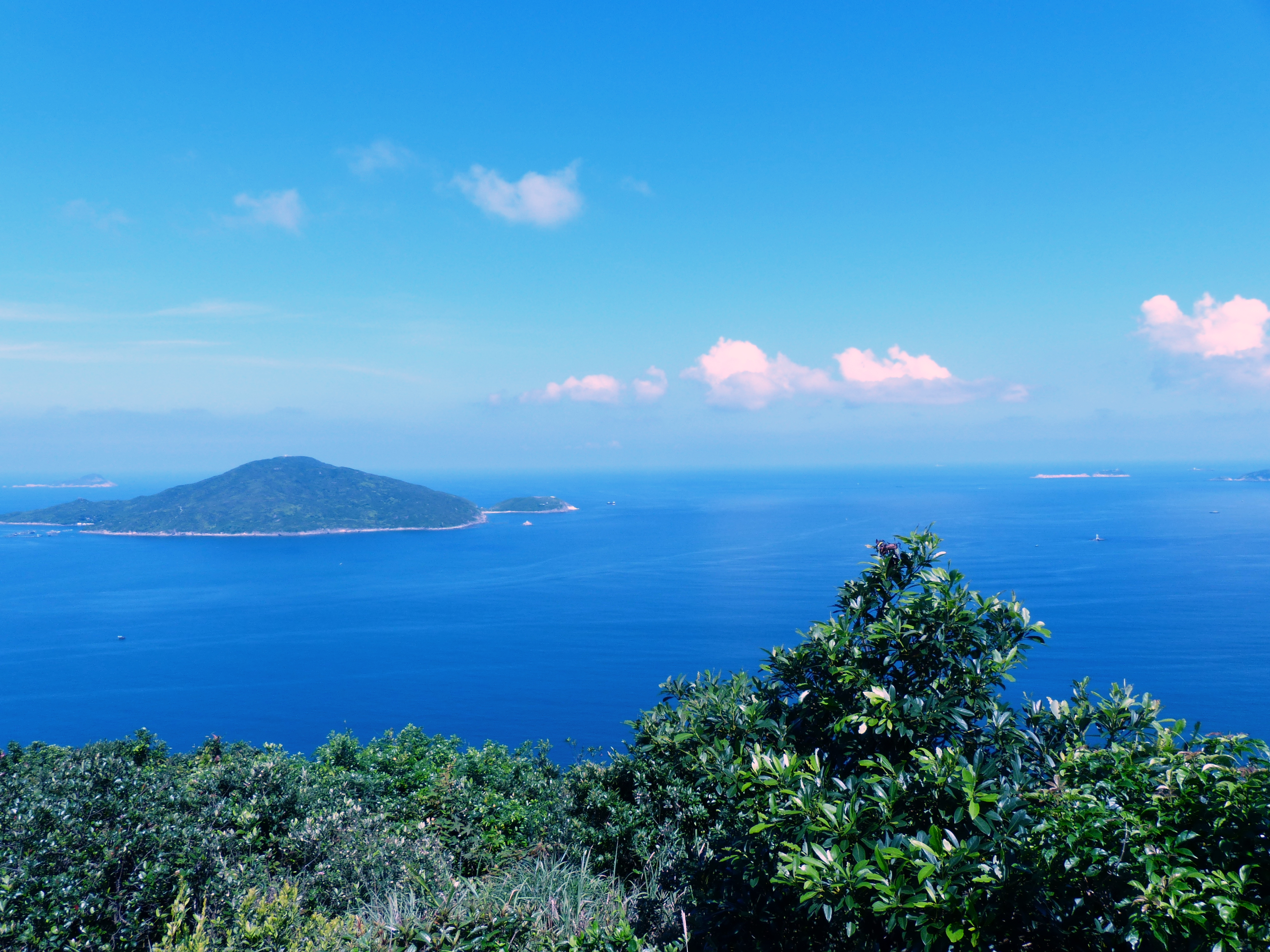 View seen on the Pottinger Peak Ovservatory